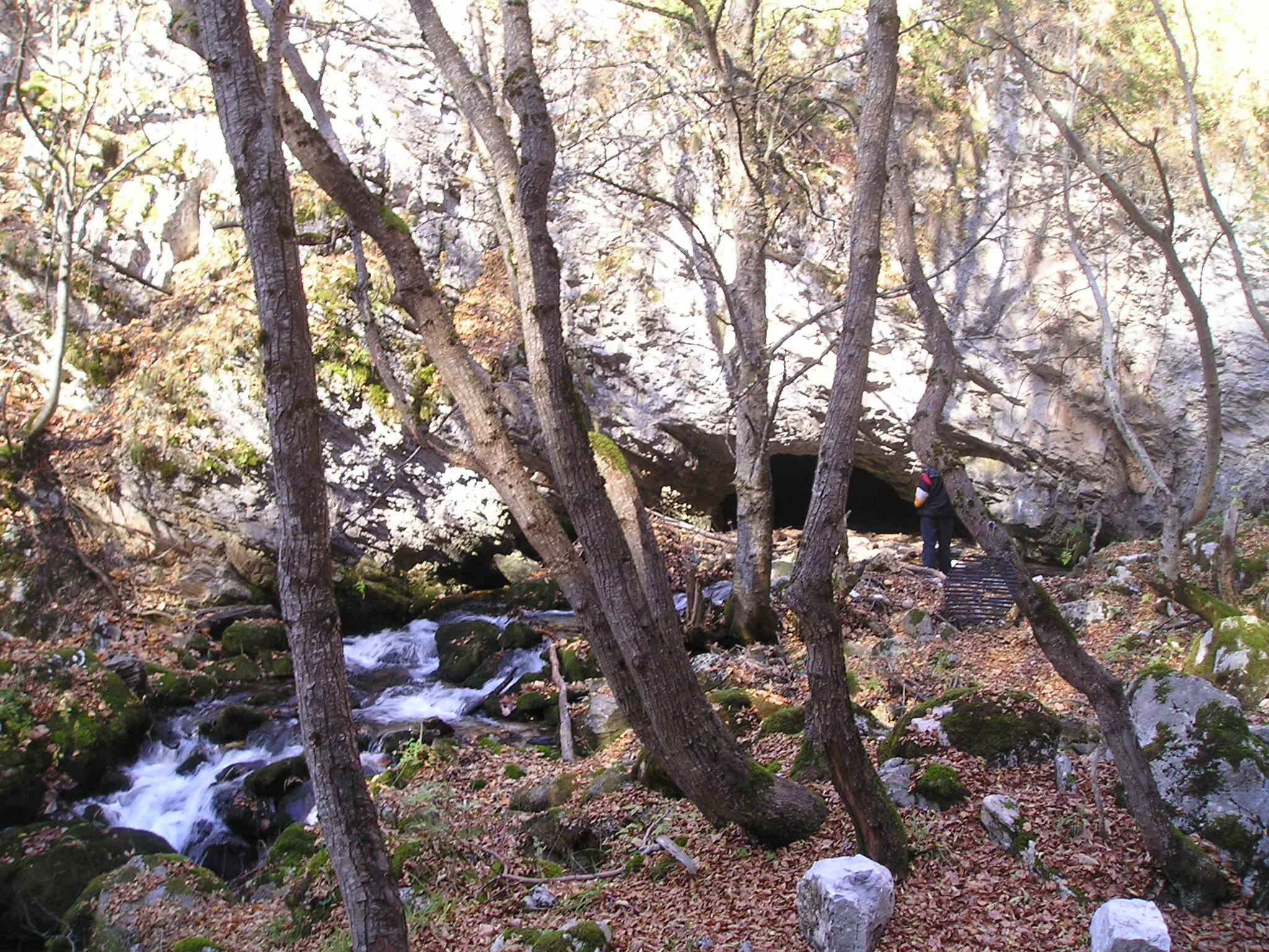 The cave Alilica near village of Tresonche, Macedonia